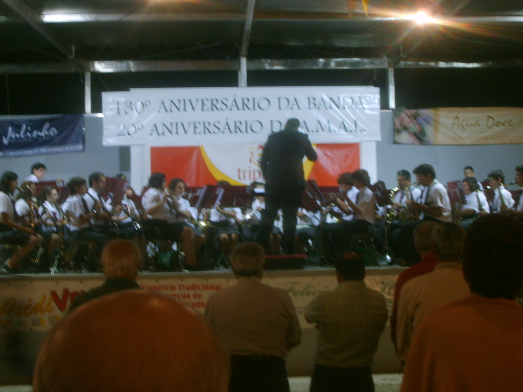 Band of Lourinhã